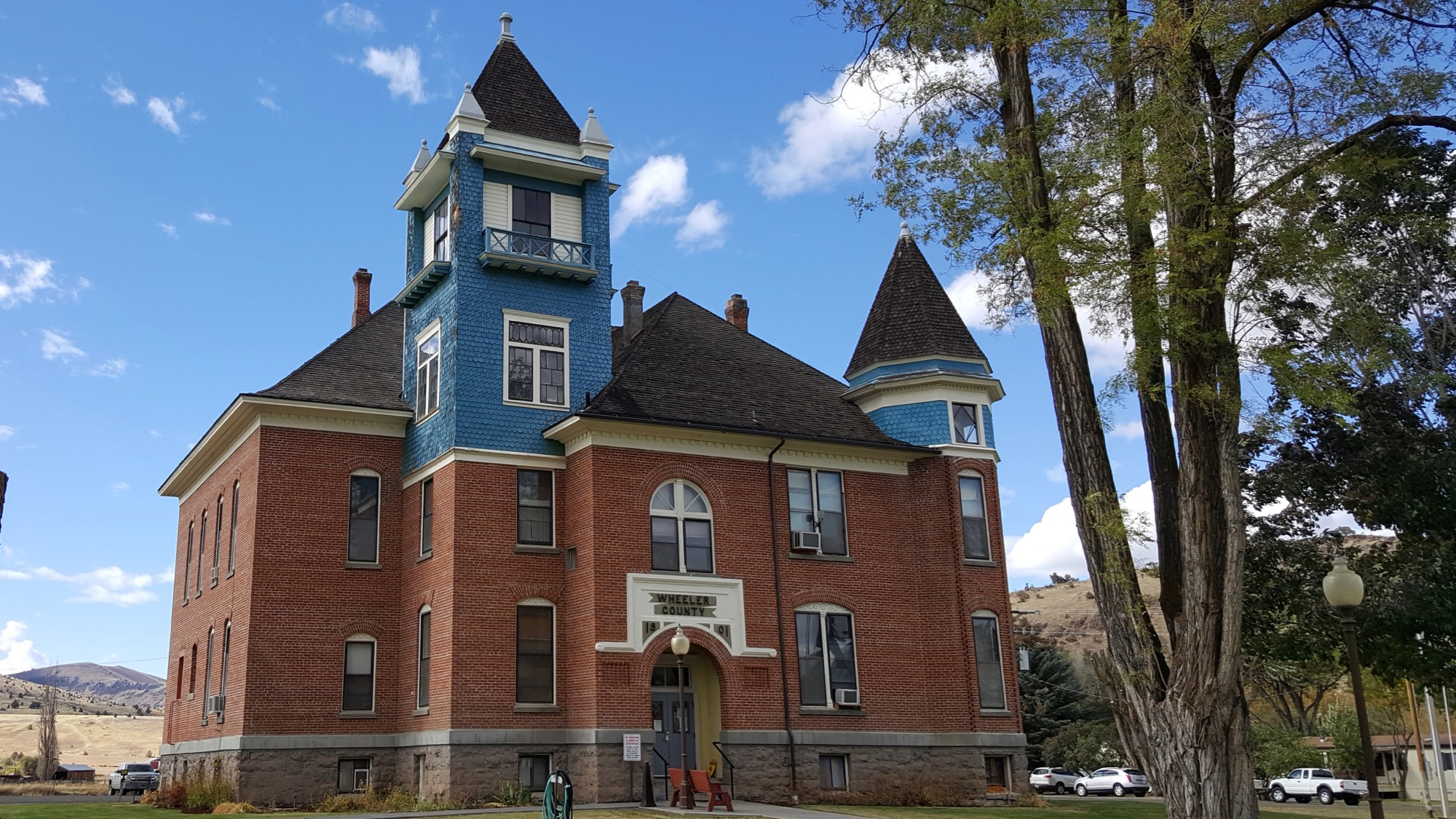 Wheeler County Courthouse in Fossil OR, photo by John Stanton 1 Oct 2016